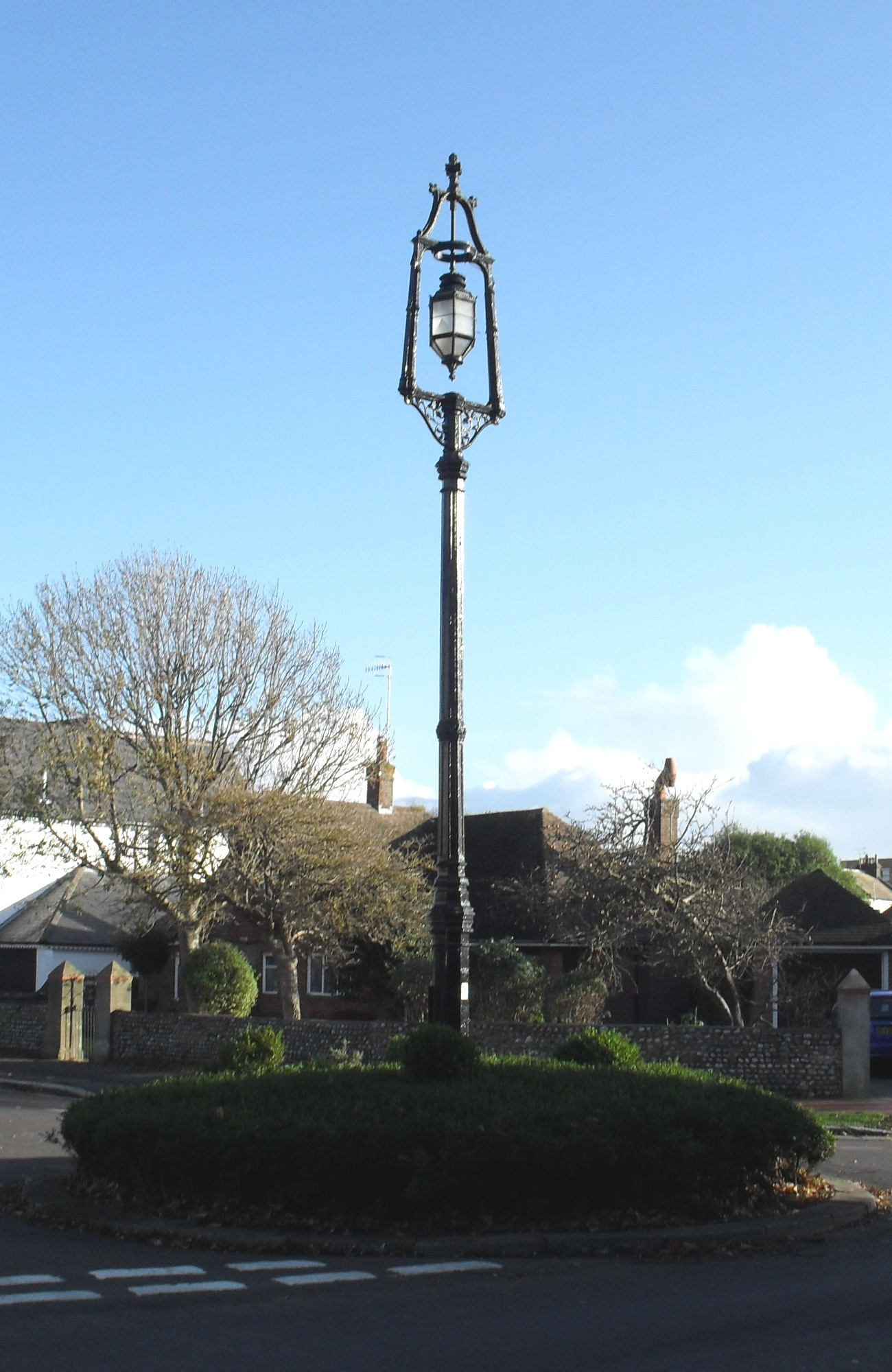 Ornate cast-ieon lamp-post at Farncombe Road/Church Walk, Worthing, West Sussex, England. The only one left out of 110 installed in 1901 by Worthing Borough Council. Listed at Grade II by English Heritage (IoE Code 433346)